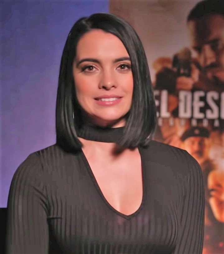 Venezuelan actress and dancer Scarlet Gruber interviewed by Dulce Osuna about El Desconocido